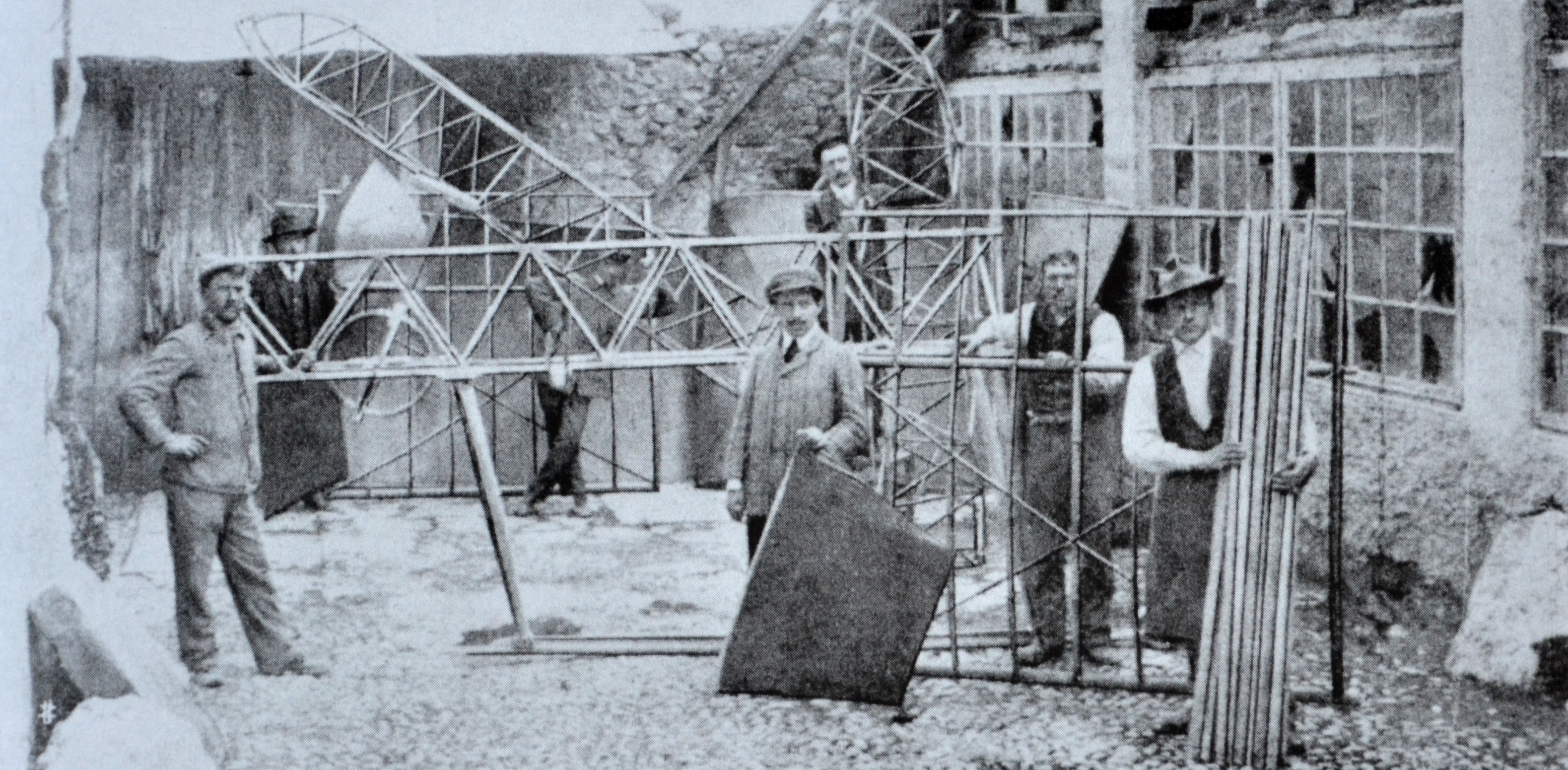 Some Caproni mechanics and some parts of the Caproni Ca.1 that was being built in Arco, Trento in late 1909 or early 1910.